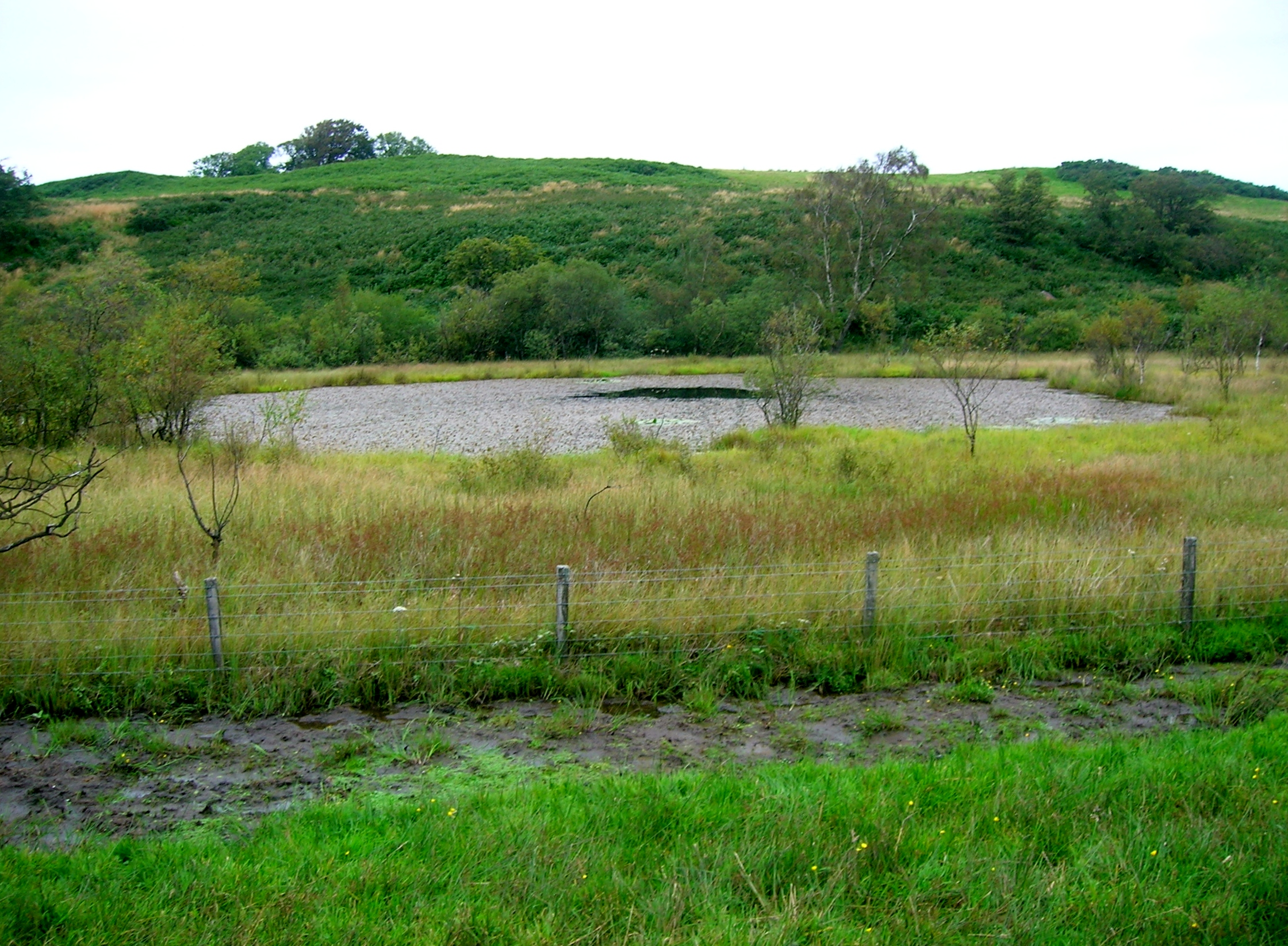 The Lochs Loch open water from near Lochlands Farm ruins, Beith, North Ayrshire, Scotland